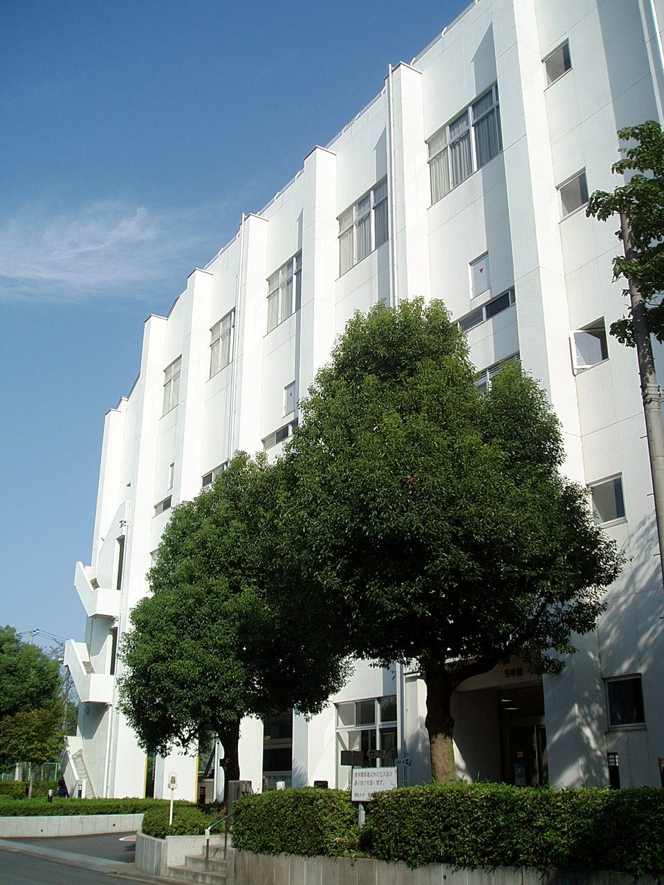 Building #5, Urawa University, located in Midori-ku, Saitama (formerly Urawa), Saitama, Japan.